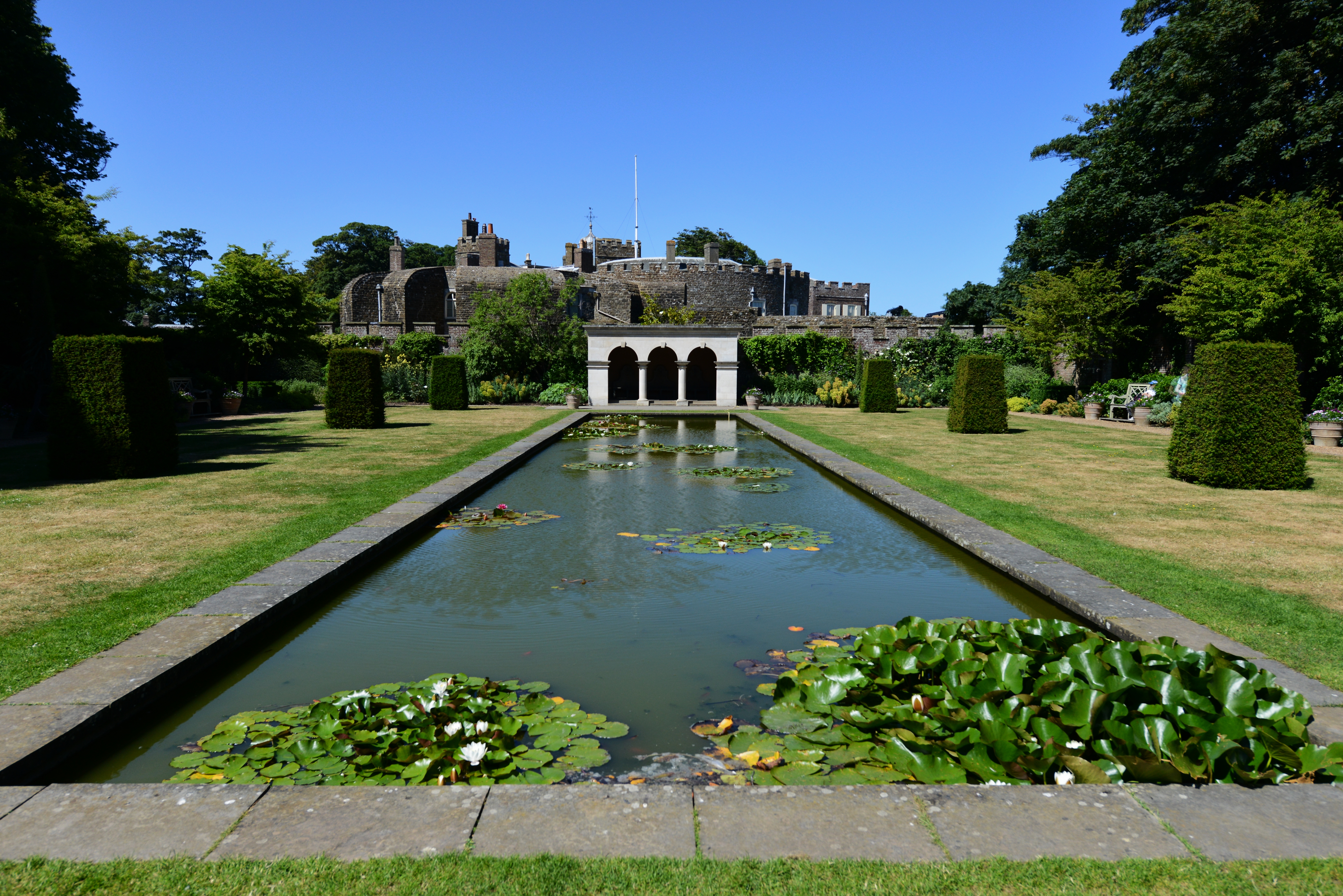 Photo by Michael Garlick